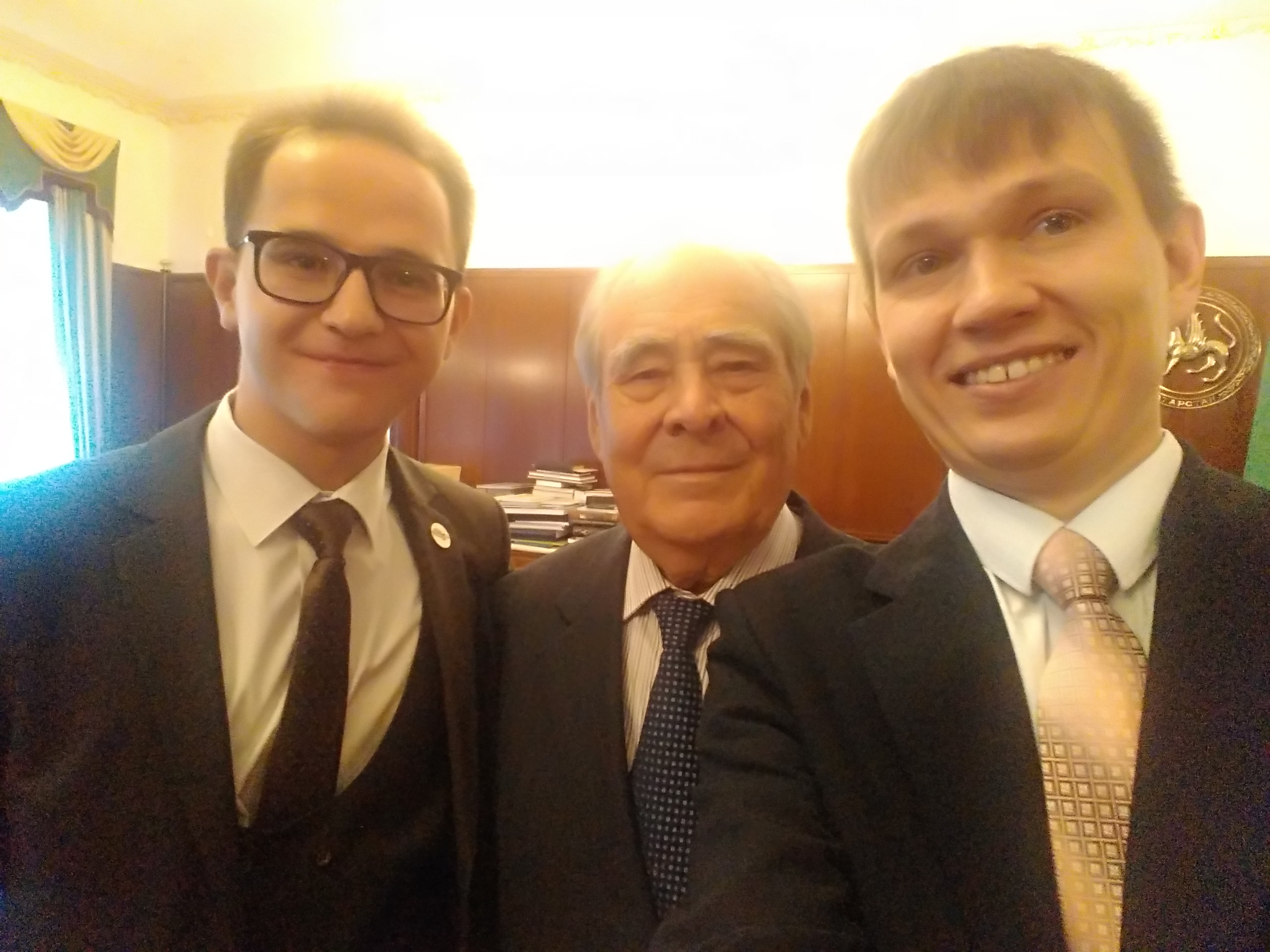 Wikimedians meeting meeting with Tatartan State Councillor Mintimer Shaimiev 1.10.2018